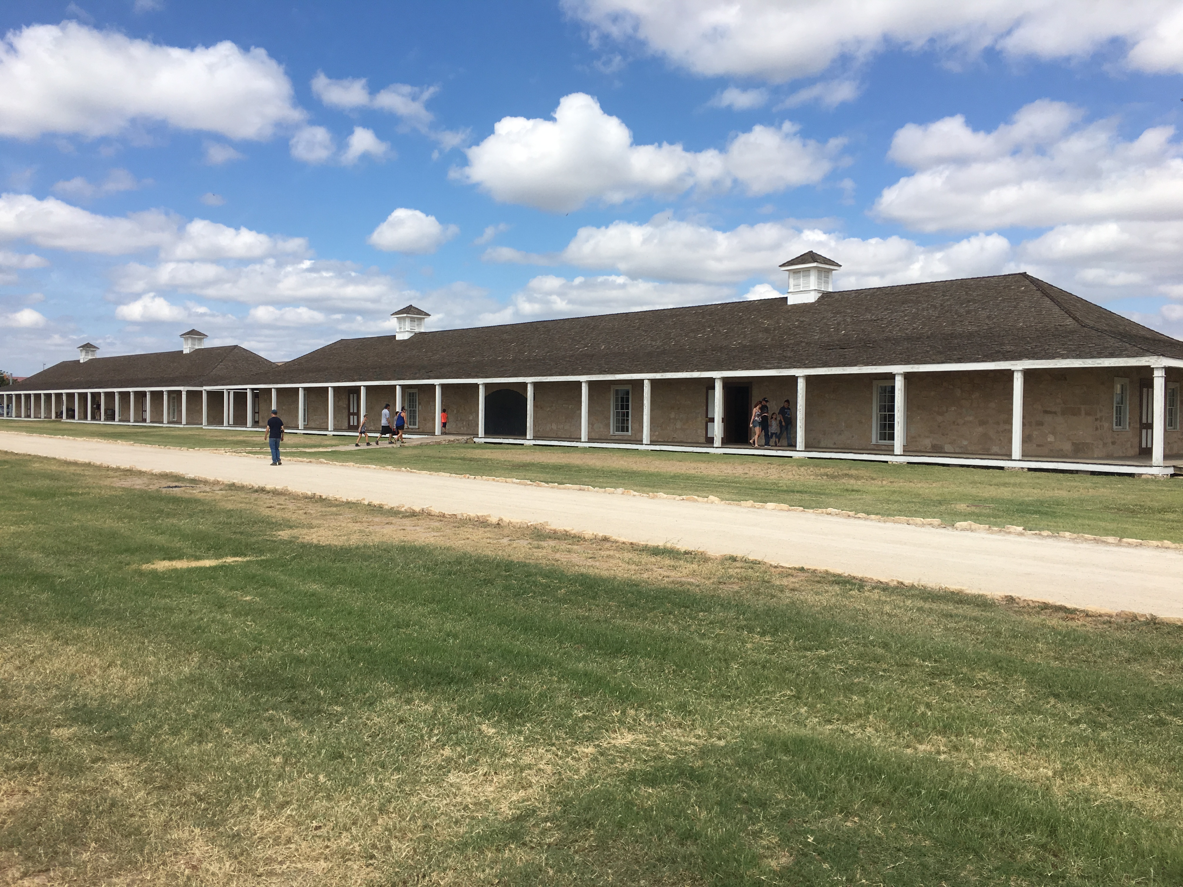 Fort Concho's first and second enlisted men's barracks. The first building (far left) contains the visitors center while the second is an exhibit of period artillery and wagon pieces.